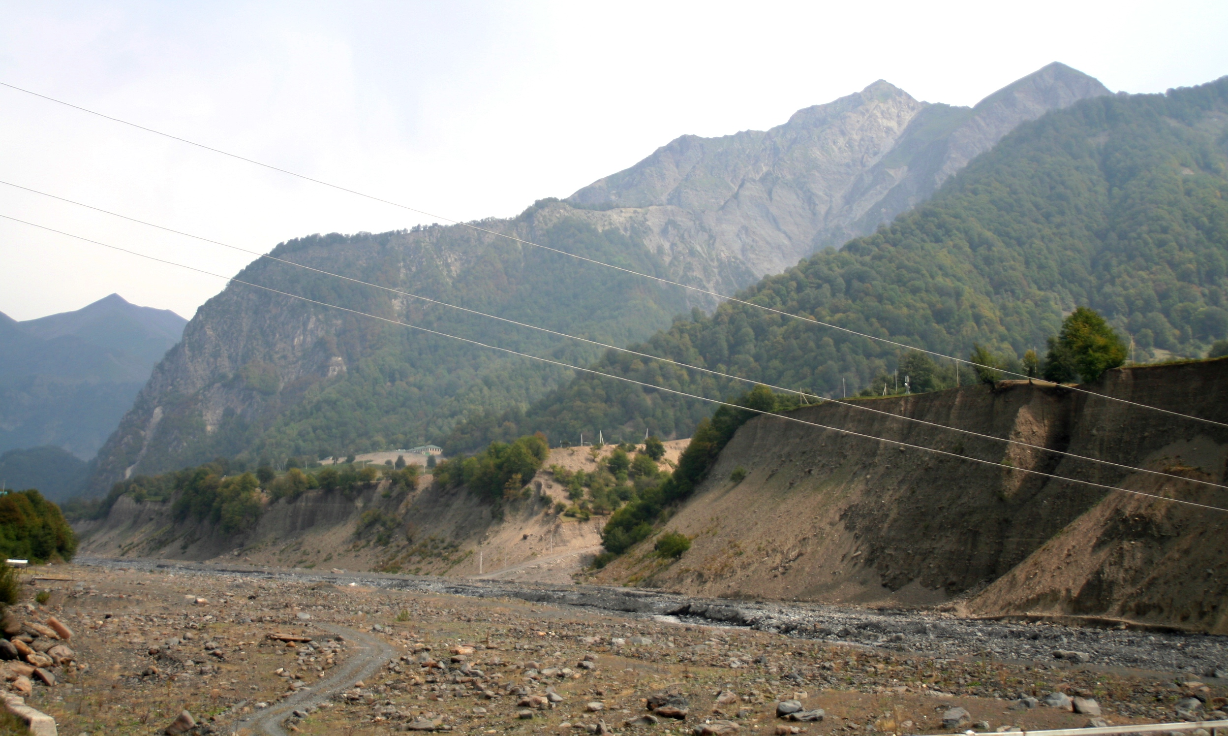 Damiraparan River in Gabala District of Azerbaijan. In photo near Laza village